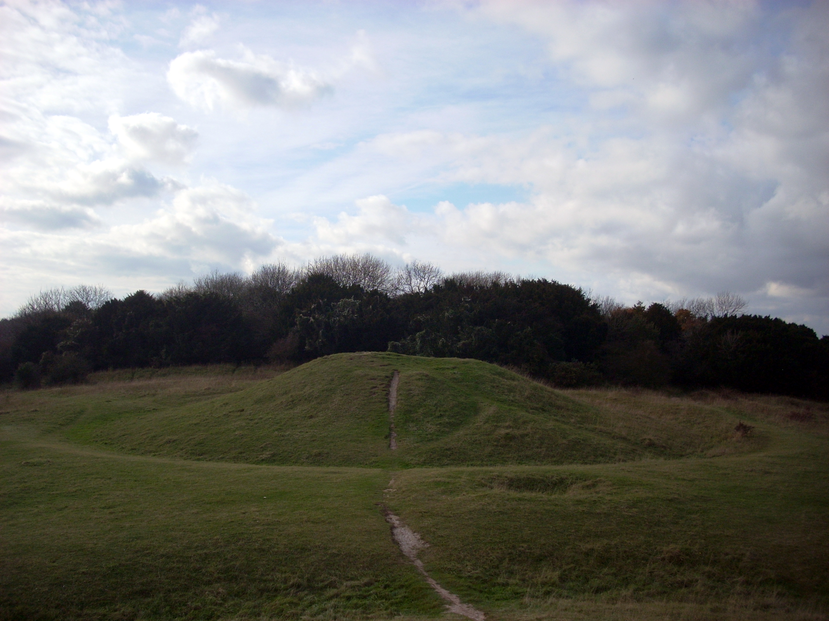 The southwesternmost bell barrow of the Devil's Humps on Bow Hill, West Sussex. A pond barrow is visible in the foreground.